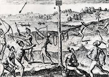 This was drawn by Jacques LeMoyne in 1591, after he observed the Timucua People of present day Florida. His description reads as follows, "The young men... they played a certain ball game in the following manner. A post was erected in the middle of an area... on the top of which was a rectangular wooden frame woven from rushes, and the one who managed to hit it with a ball was awarded a prize" (Library of Congress).